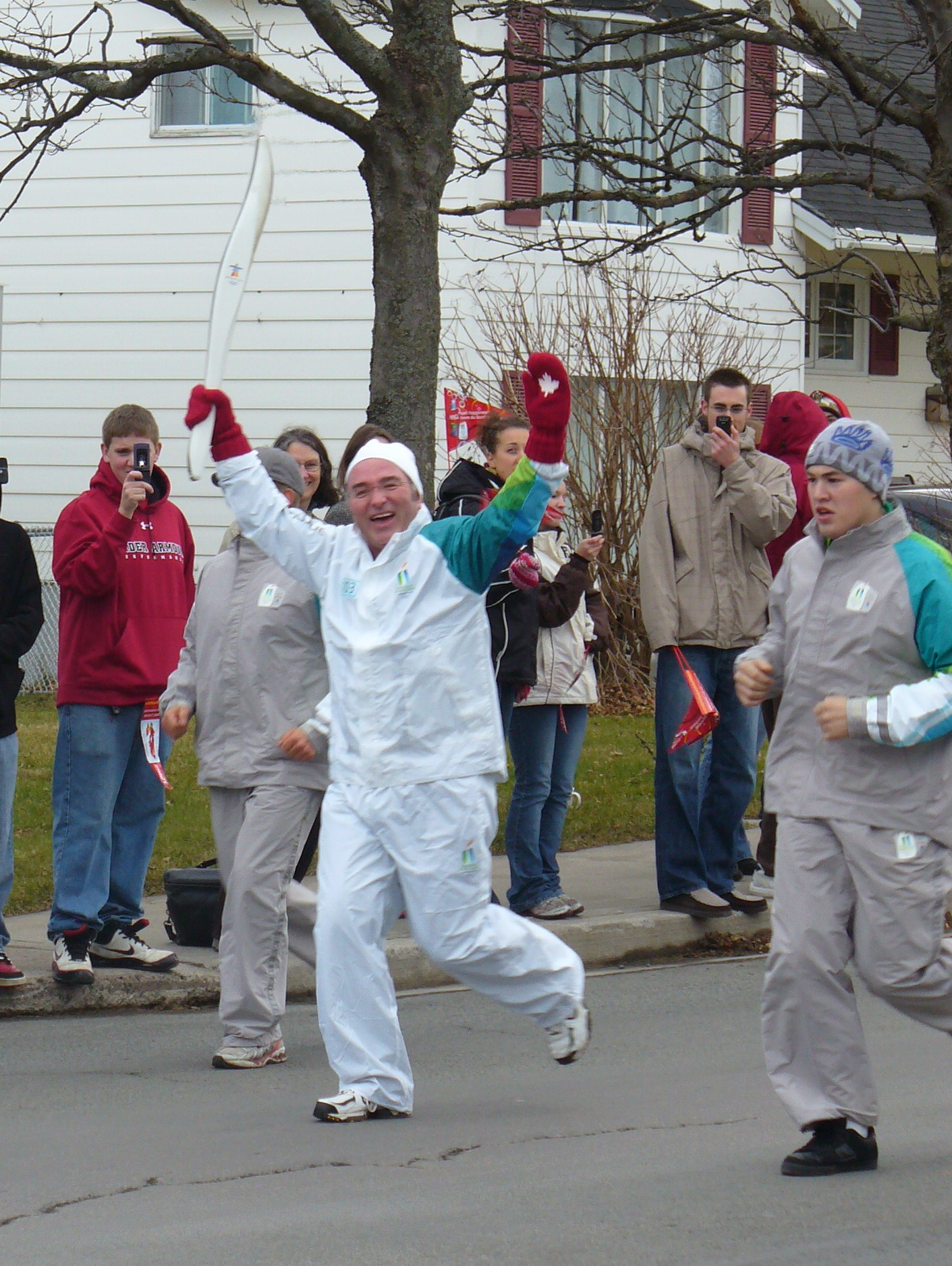 This photo depicts the 2010 Winter Olympics torch relay while passing by Memorial University of Newfoundland in St. John's, Newfoundland and Labrador, Canada on November 13th, 2009.